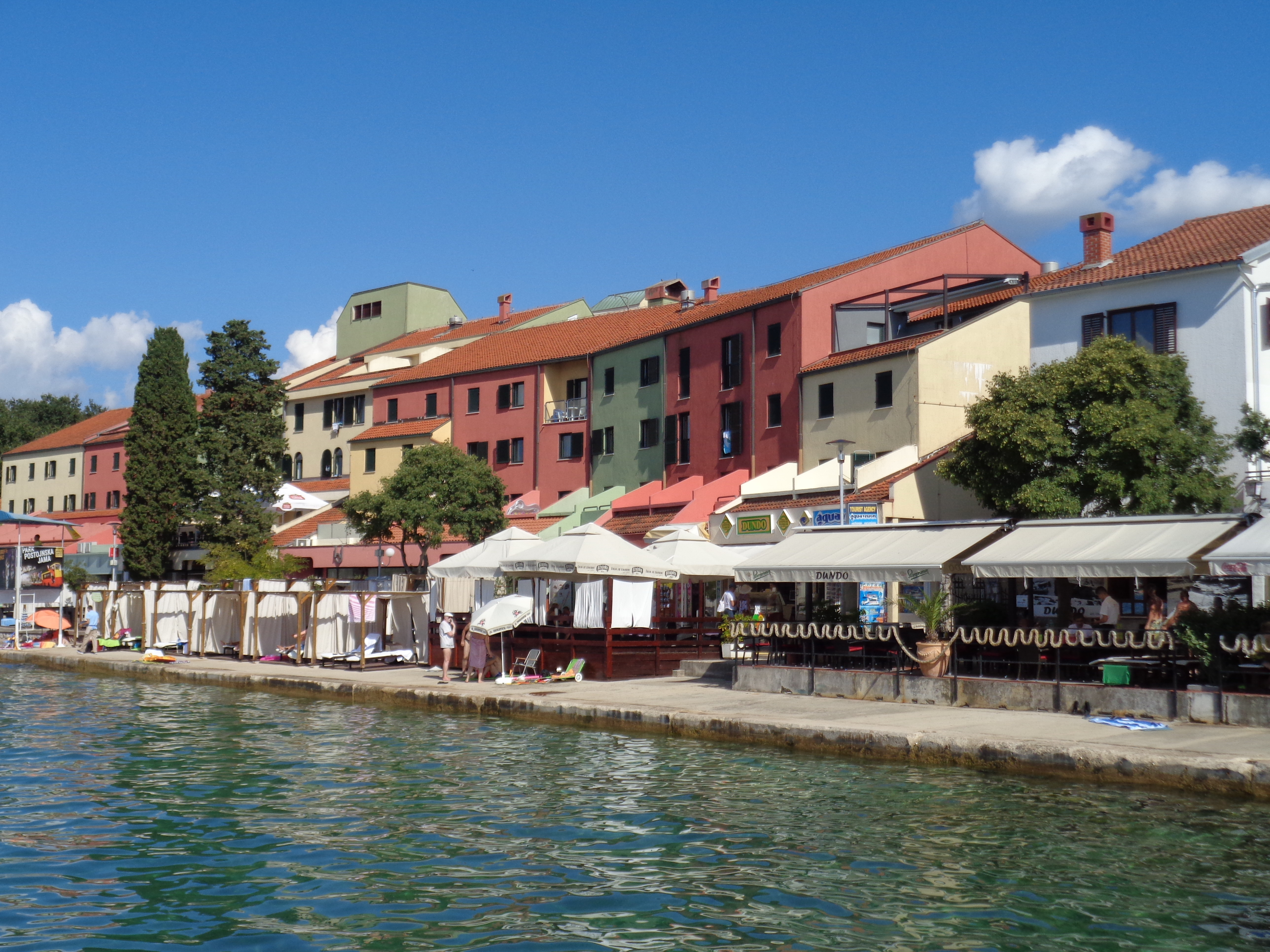 Njivice, Island of Krk, Primorje-Gorski Kotar County, Croatia - waterfront